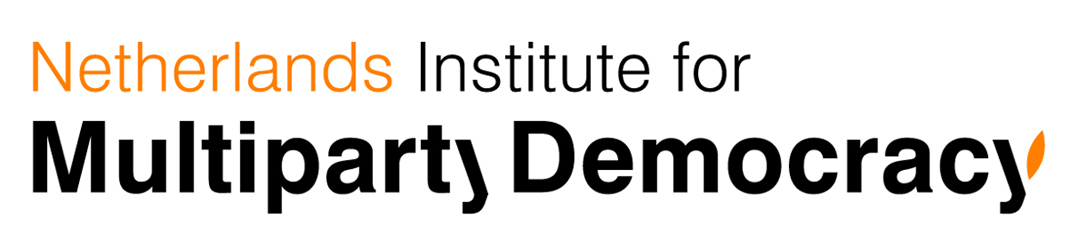 The extended logo of the Netherlands Institute for Multiparty Democracy